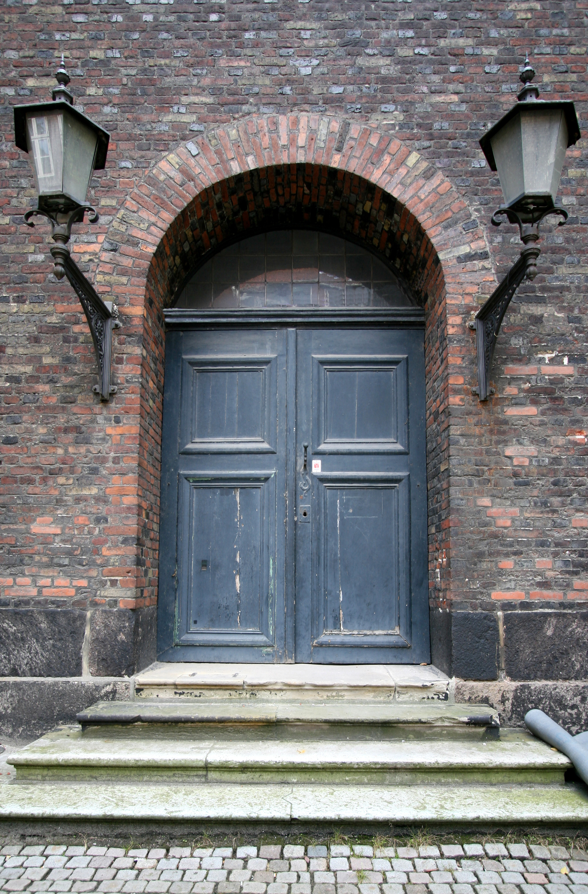 Vor Frelser Kirke (Church of Our Saviour), Copenhagen, Denmark. North portal.